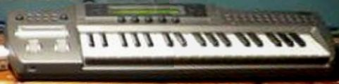 Korg Prophecy matthewvenn's studio in Carlton Way, September 11, 2003